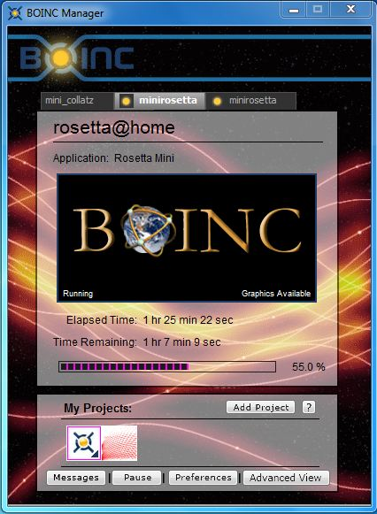 Snapshot of the Simplified View of BOINC's GUI.